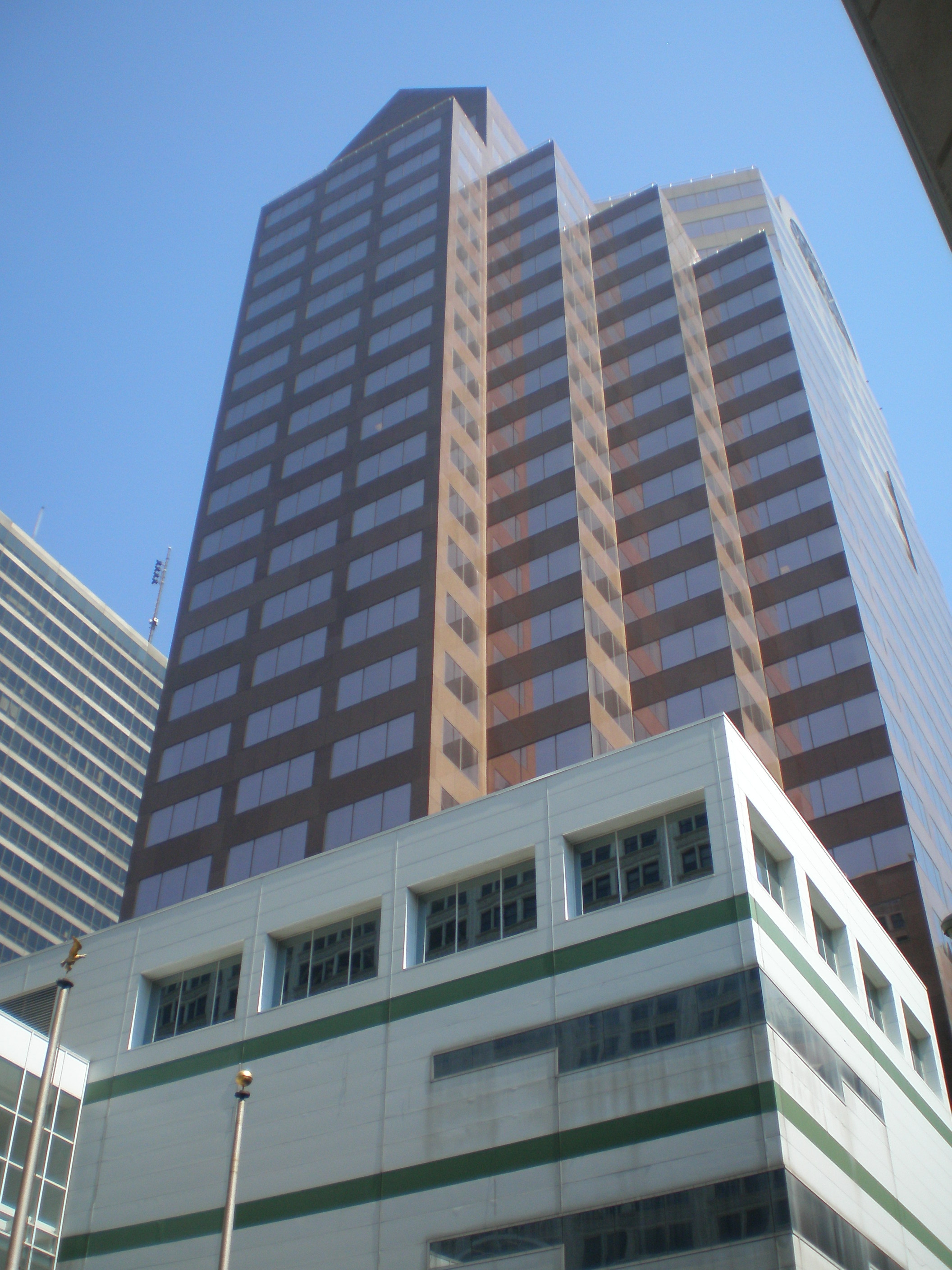 One City Centre, which once served as the headquarters for Trans World Airlines